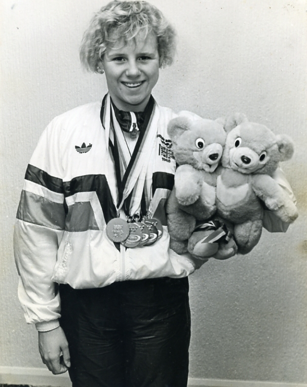 Picture taken in 1988 Seoul Korea of Joanne Rout, Britains youngest ever Gold medal winning Paralympian